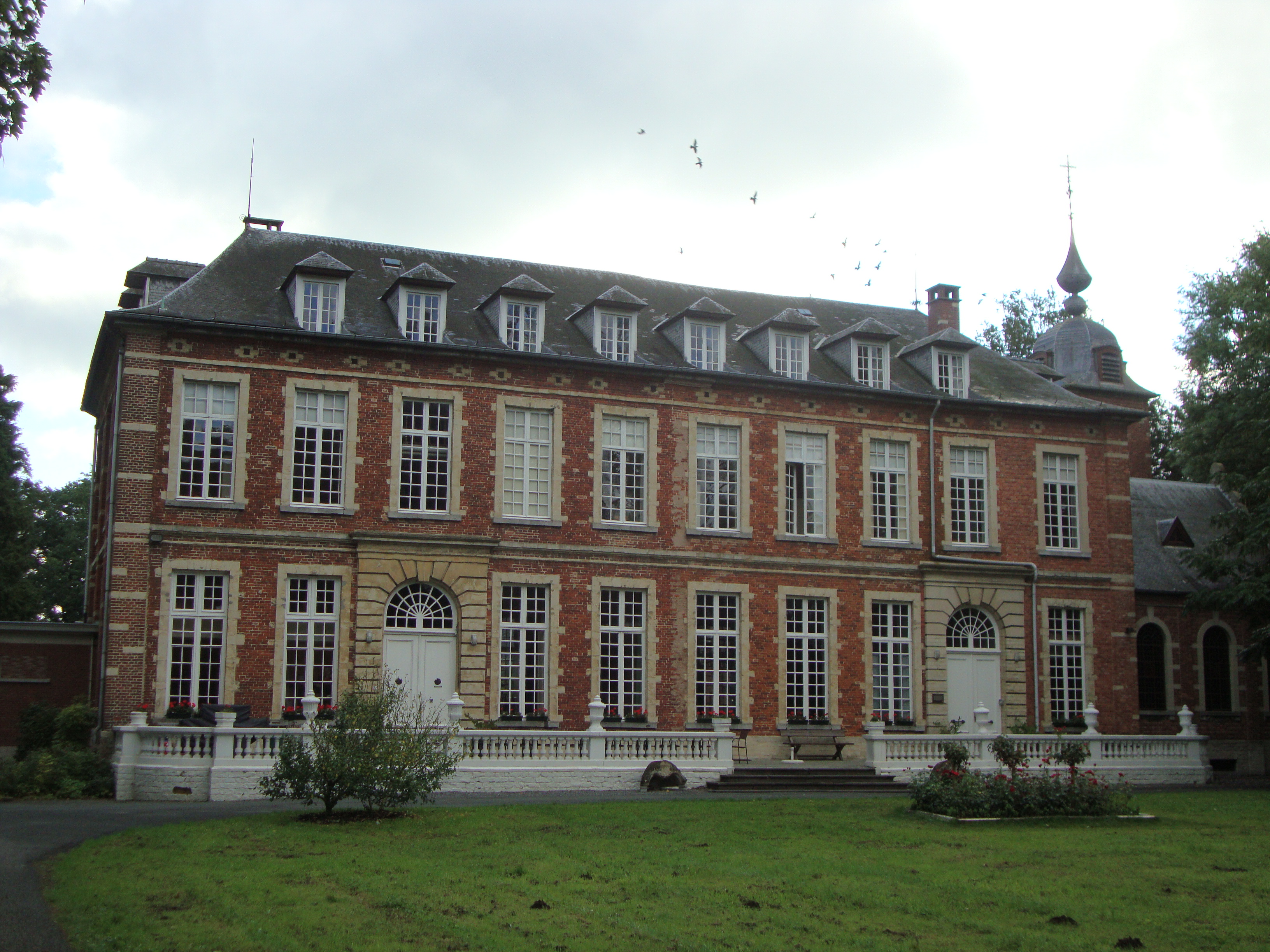 Abbey Benedictine Women, founded by Godfrey I of Brabant in the early 12th century, Kortenberg